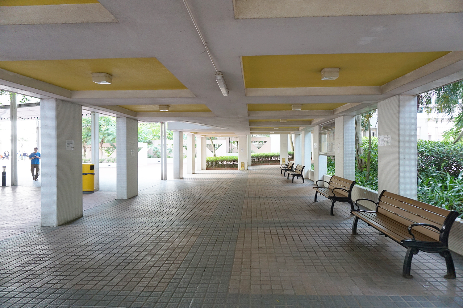 Yan Shing Court in Fanling, Hong Kong.